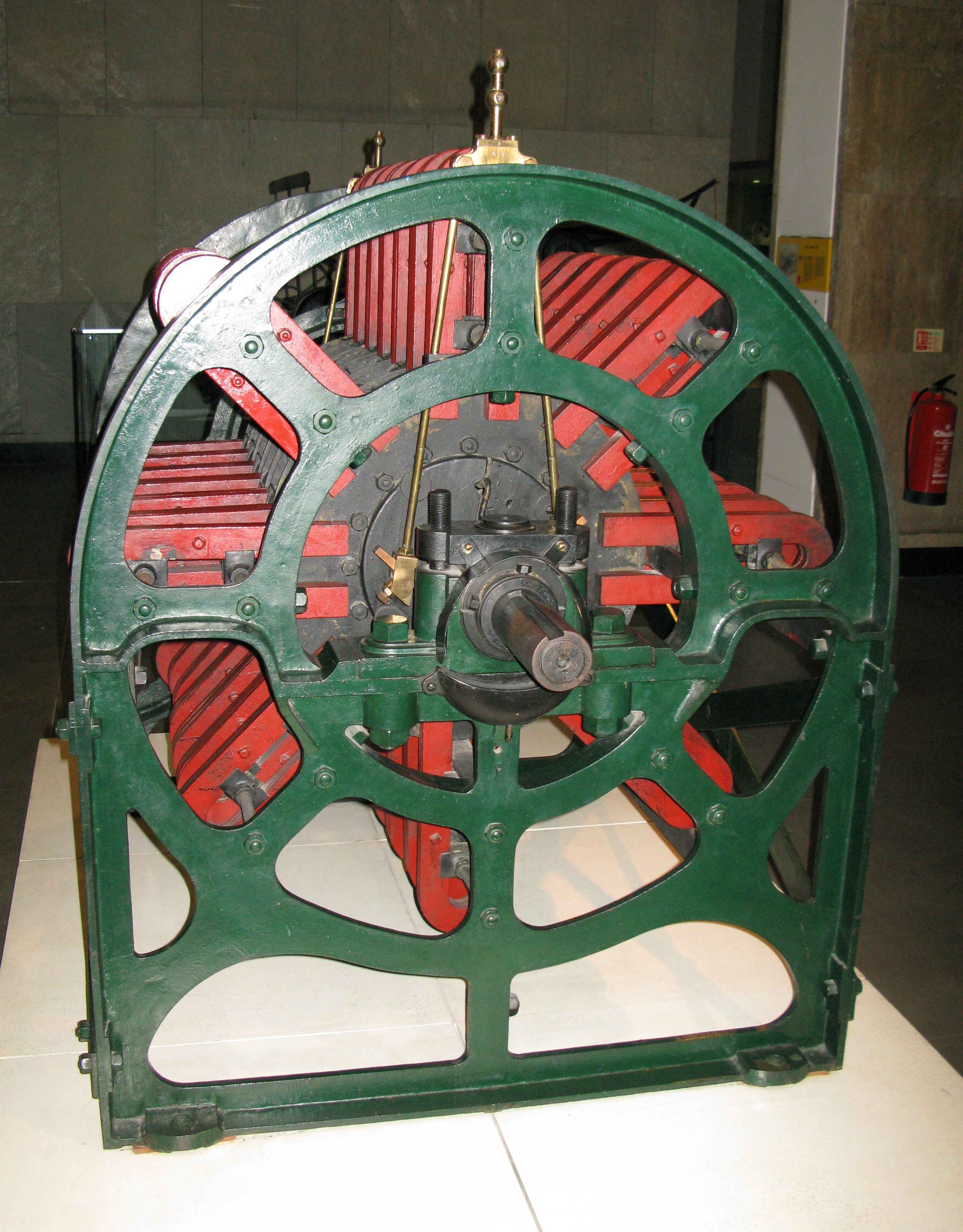 Photo of the original for Souter Lighthouse